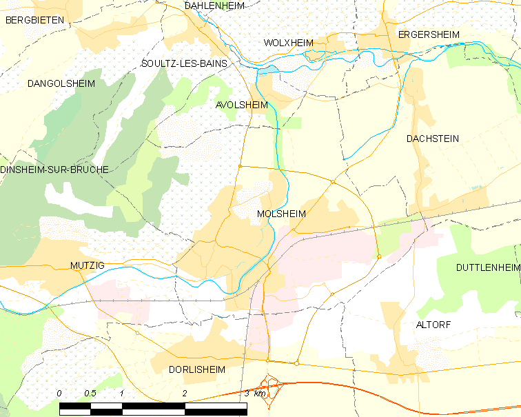 Map of French municipality